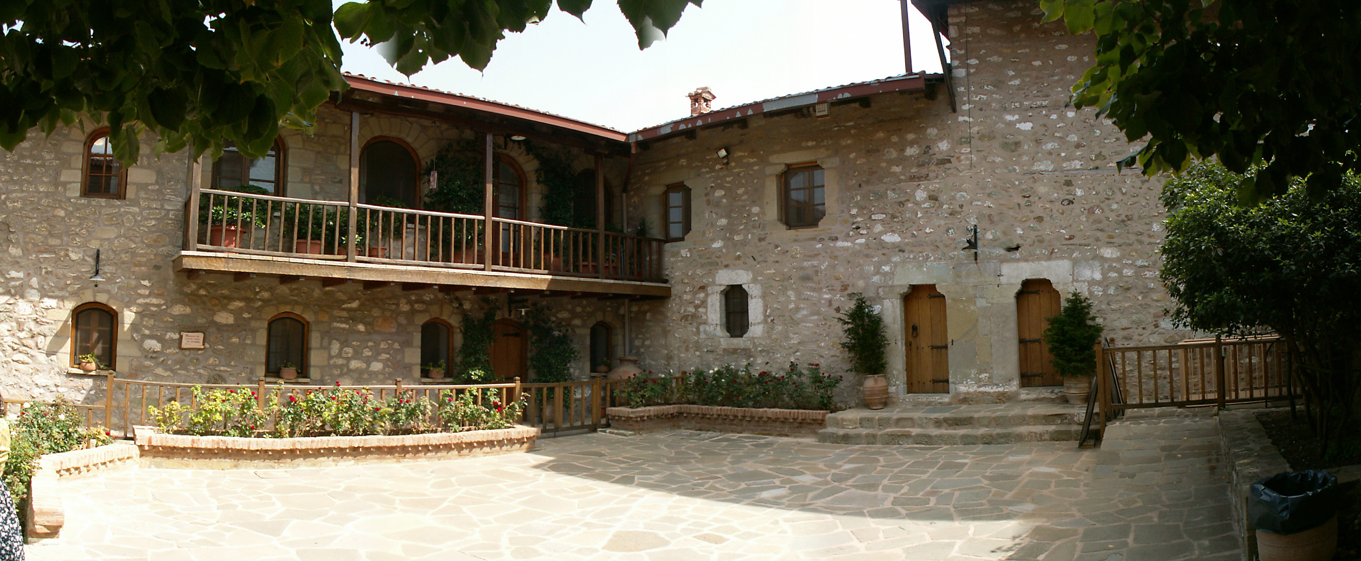 One of seweral inner courtyards of the St. Stephan Monastery, Greece.